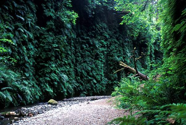 Fern Canyon in Redwood National Park, California